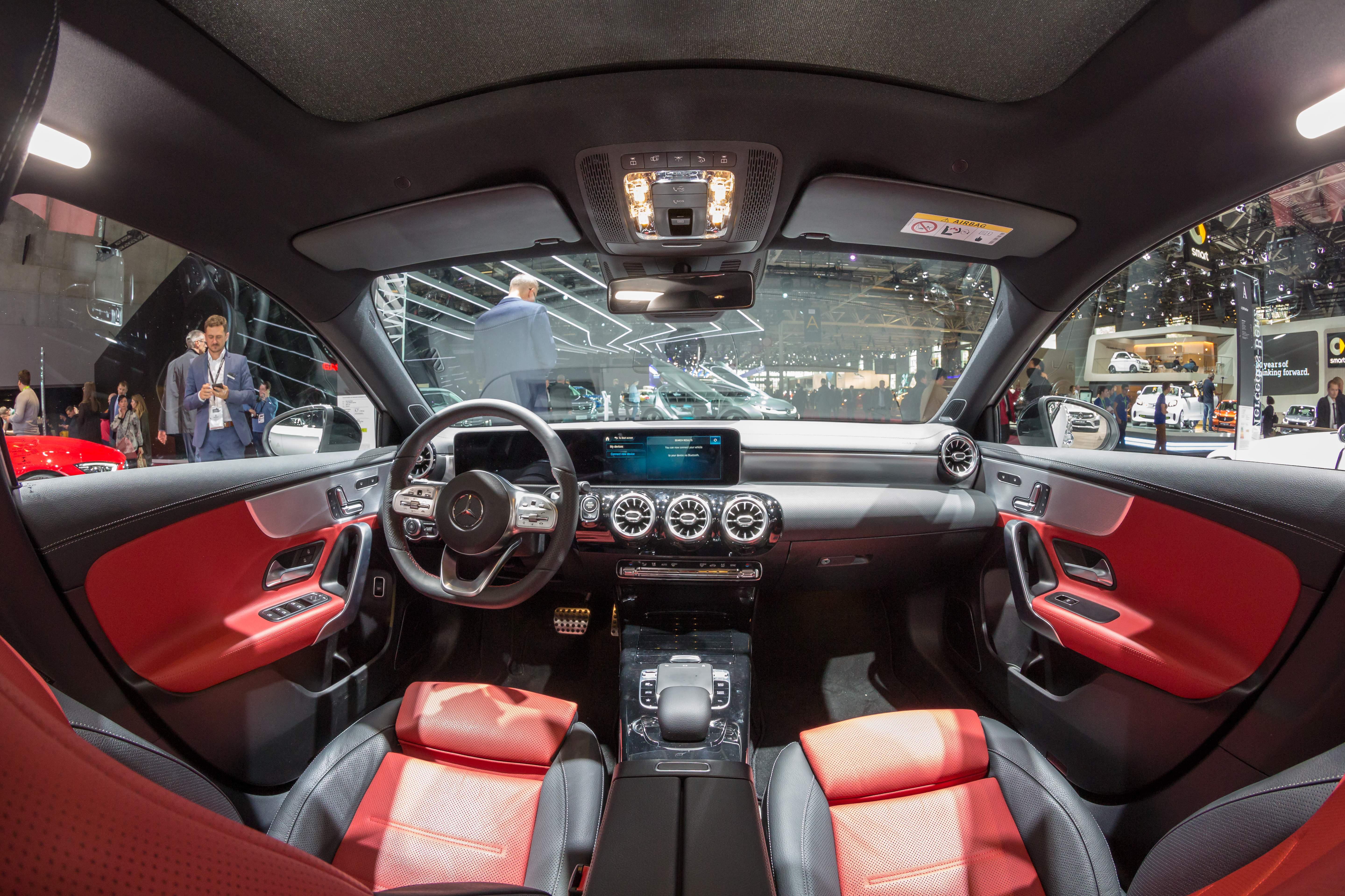 Wide angle views of cockpit of Mercedes-Benz A-Class, Mondial Paris Motor Show 2018